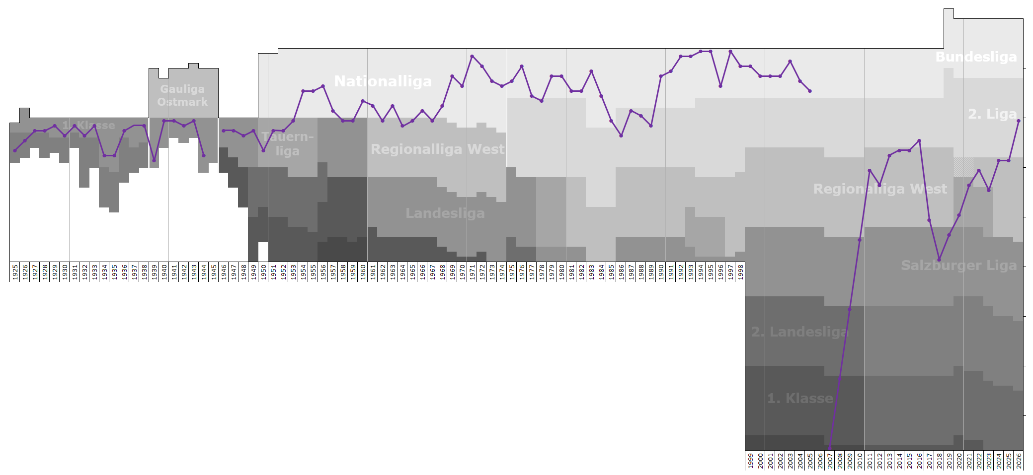 Chart of end-season table positions of Austria Salzburg in the Austrian football league system. Data source: RSSSF, , regiowiki.at, sfv.at, wikipedia